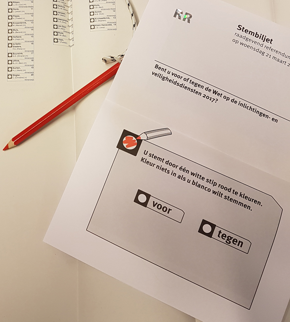 Stembiljet voor het referendum over de Wiv2017 in de gemeente Winterswijk